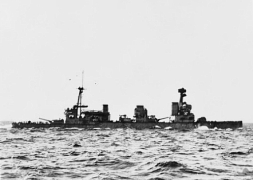 An Indefatigable class battle cruiser, either HMAS Australia or HMS New Zealand, with a Sopwith Camel aircraft aft amidships turret and a Sopwith 1 1/2 Strutter on the forward amidships turret at sea, circa 1918.